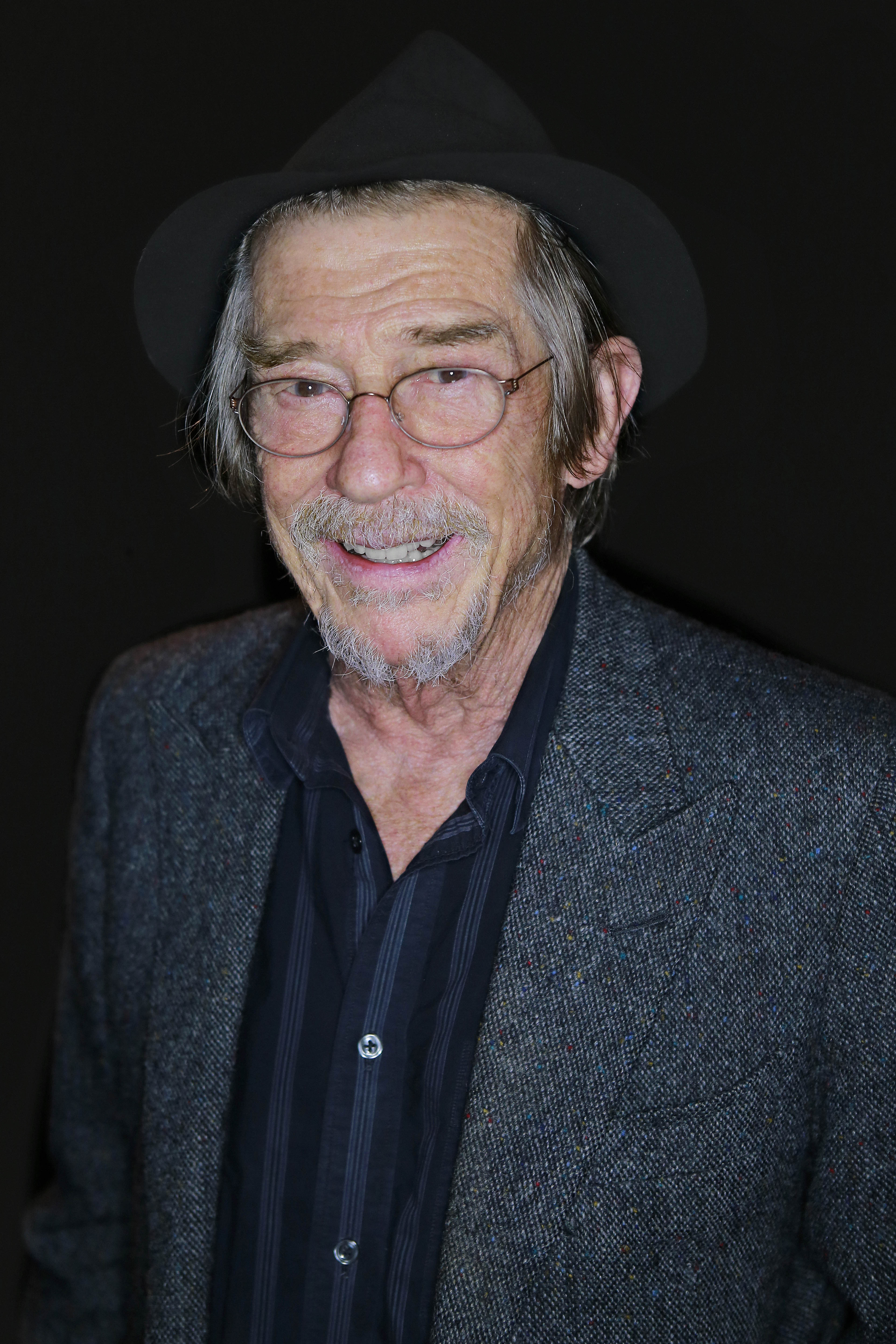 Portrait by Walterlan Papetti